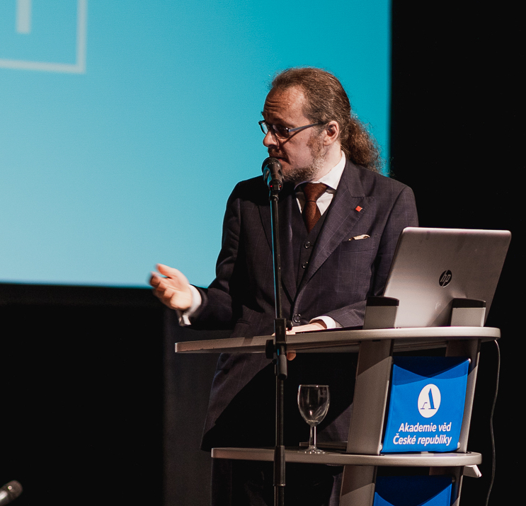 Benedikt Löwe at the Opening Ceremony of CLMPST 2019